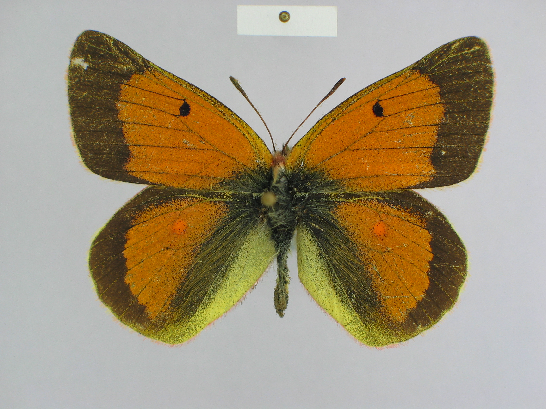 Paratype of the species Colias adelaidae adelaidae from the collection of the Zoologische Staatssamlung München; ♂ dorsal side; scalebar=1 cm